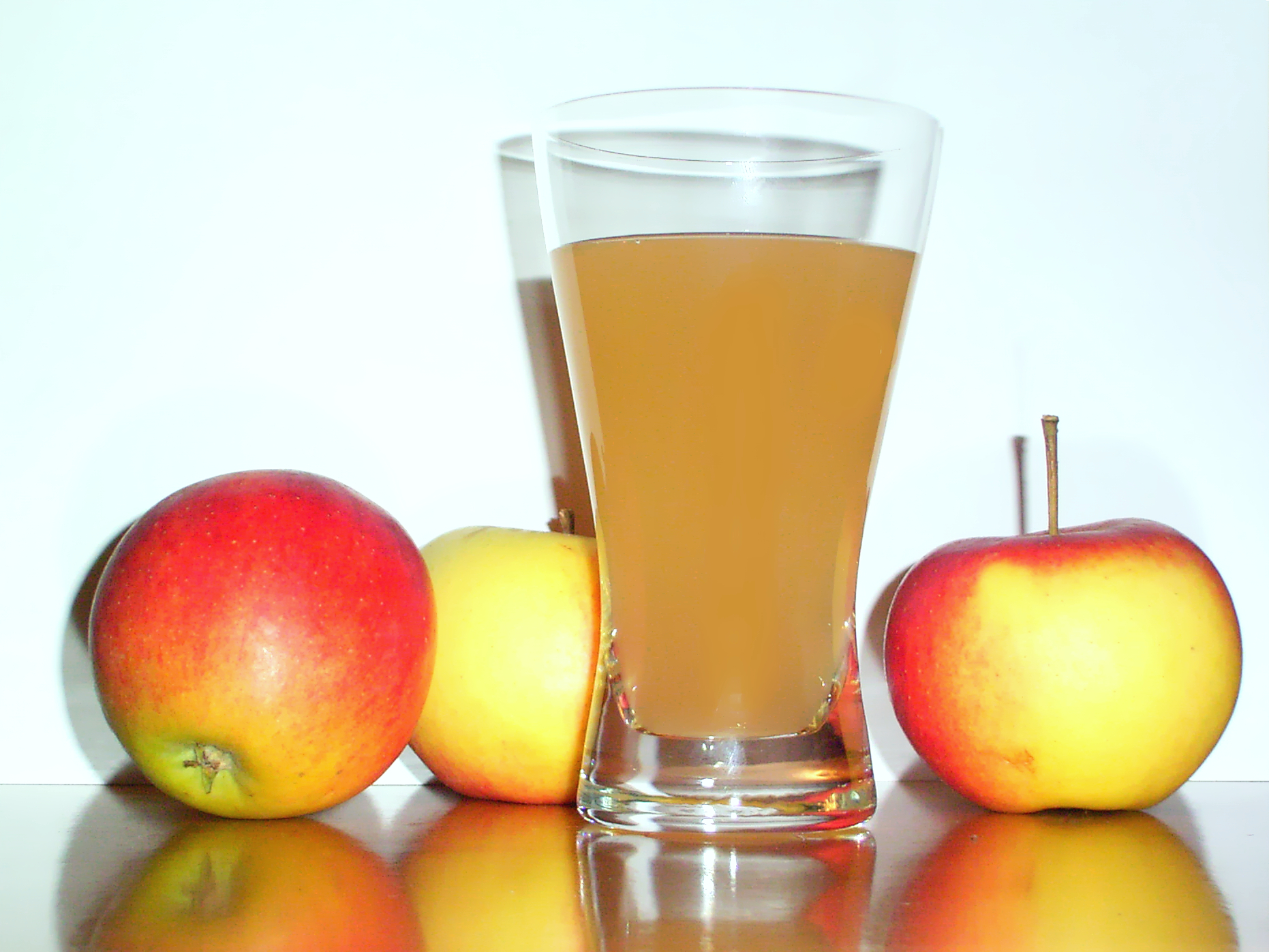 Self-photographed by Patrick Geltinger (myself; Wikipedia-Username: Flunse) - Apple juice in front of three apples